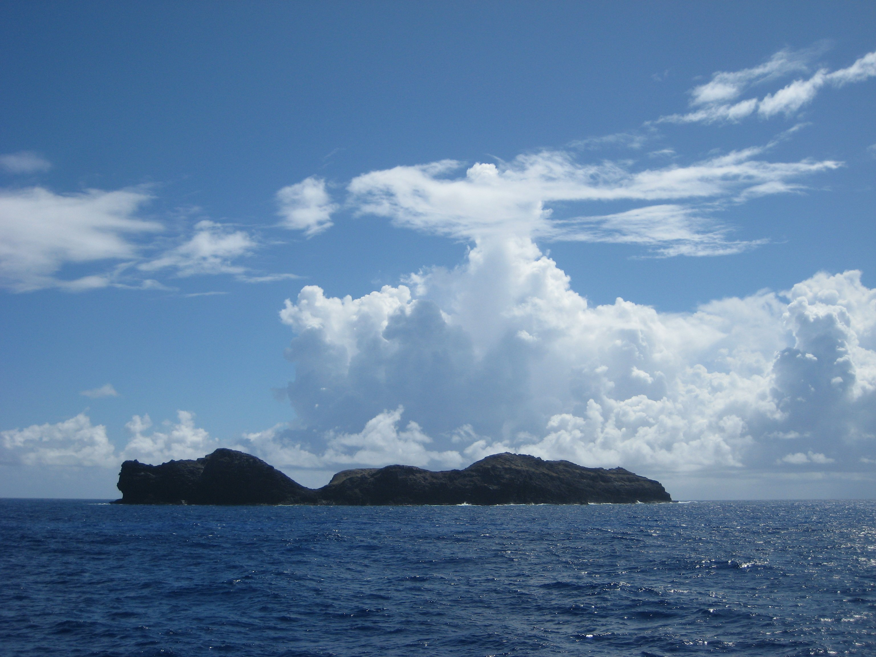 Hawaii, Necker Island.